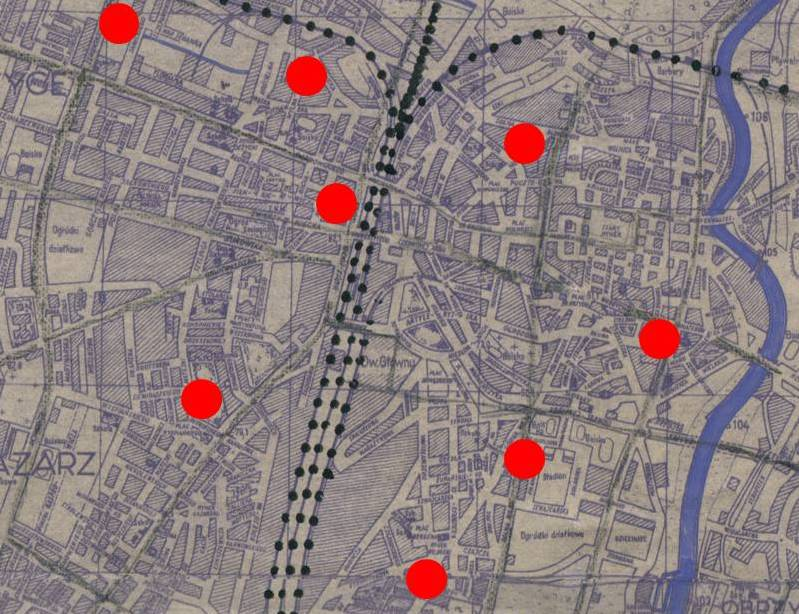 locations of the Dabrówka High School in Poznań